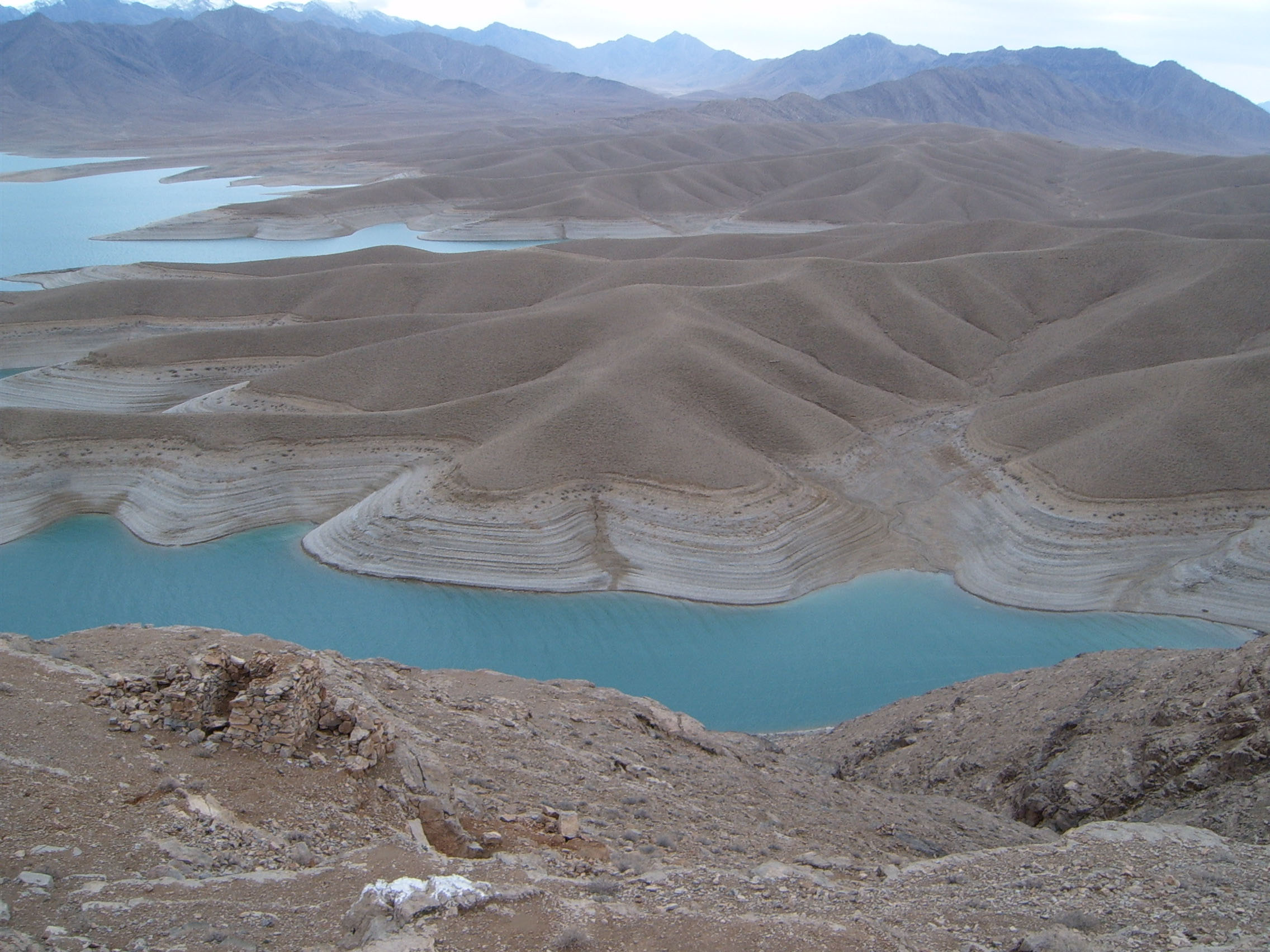 Mountains and river in Helmand Province of Afghanistan